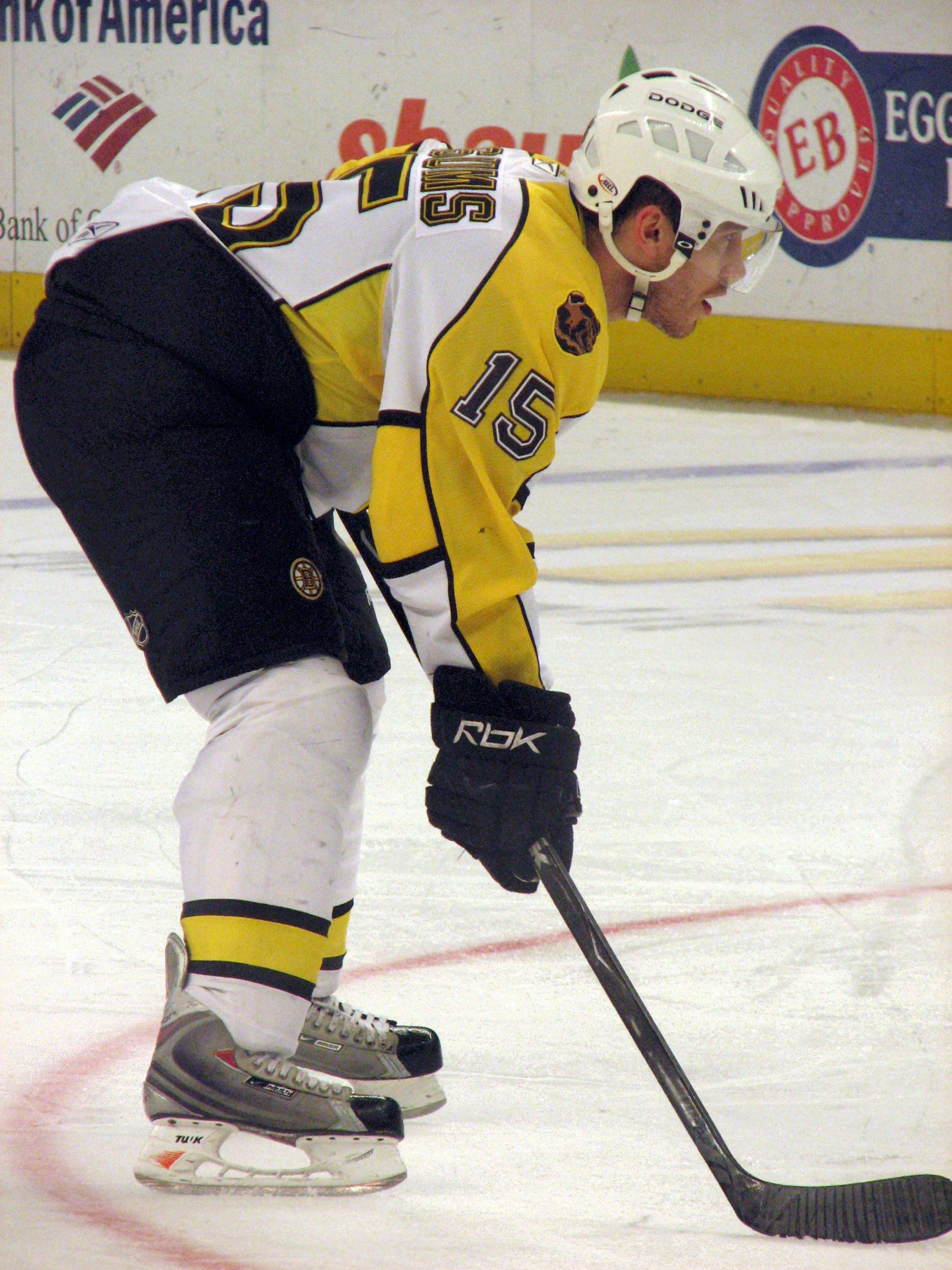 Martins Karsums, Providence Bruins